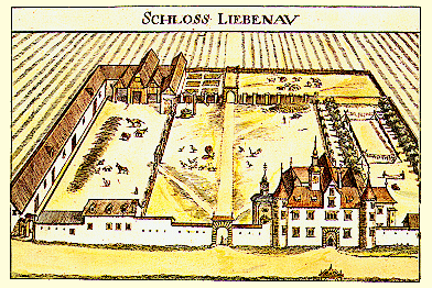 Schloss Liebenau in Graz, Styria. That former mansion was turned into a K.u.K. Artillery Cadet School in 1854. At that place, its successor, a public boarding school, still exists today. The baroque gate added in 1765 does not show up on this picture